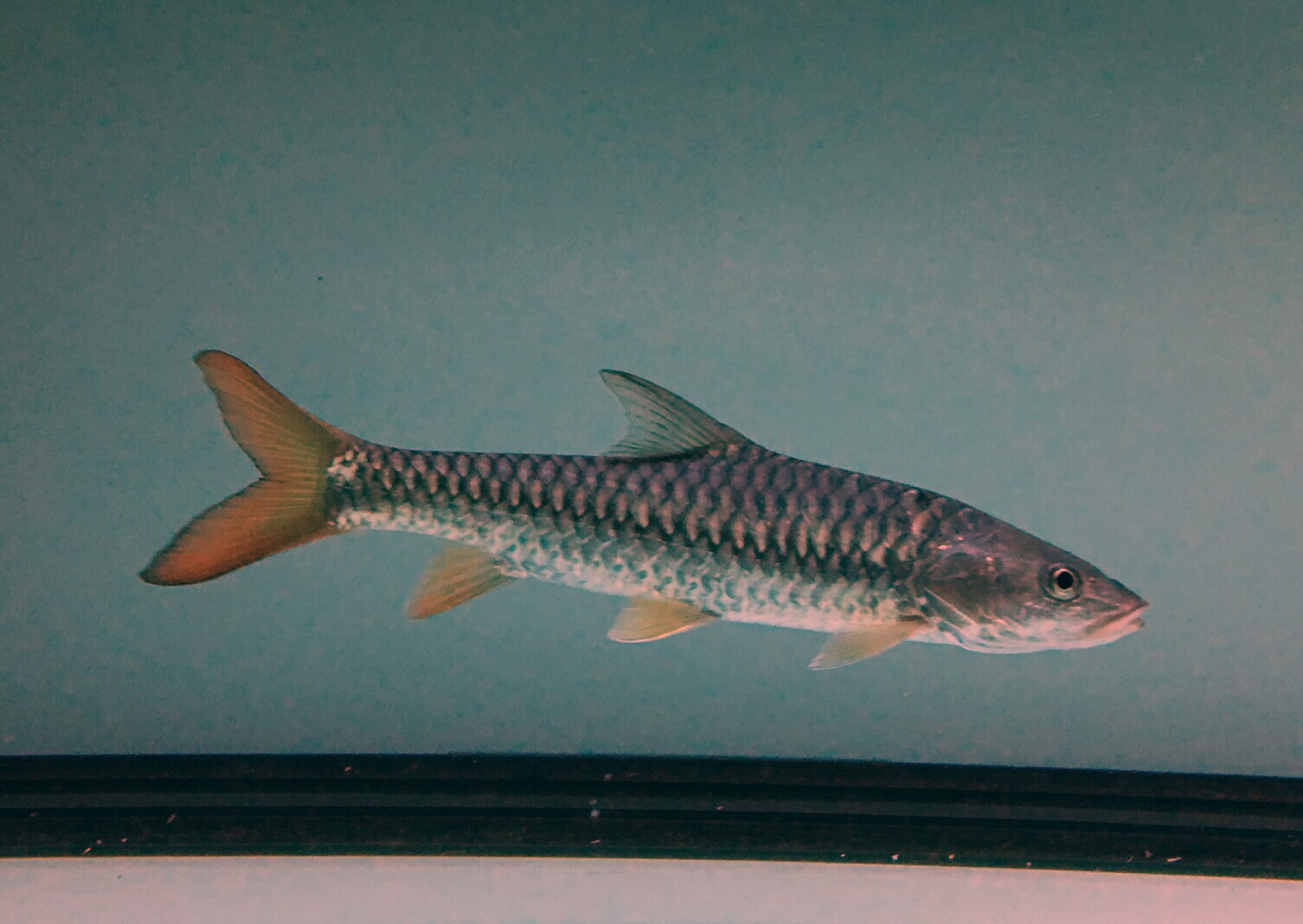 Juvenile Tor Putitora